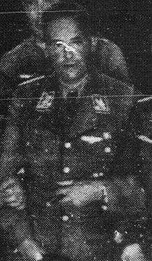 Wilhelm Sander (1895-1934), chief of staff of the SA Group Berlin Brandenburg in the years 1933 to 1934. Picture taken by Daniel Gerth the aide-de-camp of the SA Group Berlin Brandenburg in 1934. Both, Sander and Gerth, were executed by SS-firing-squads on behalf of the National-Socialist Government during the Purge known as "Night of the Long Knives" a few months later on July 1st 1934.